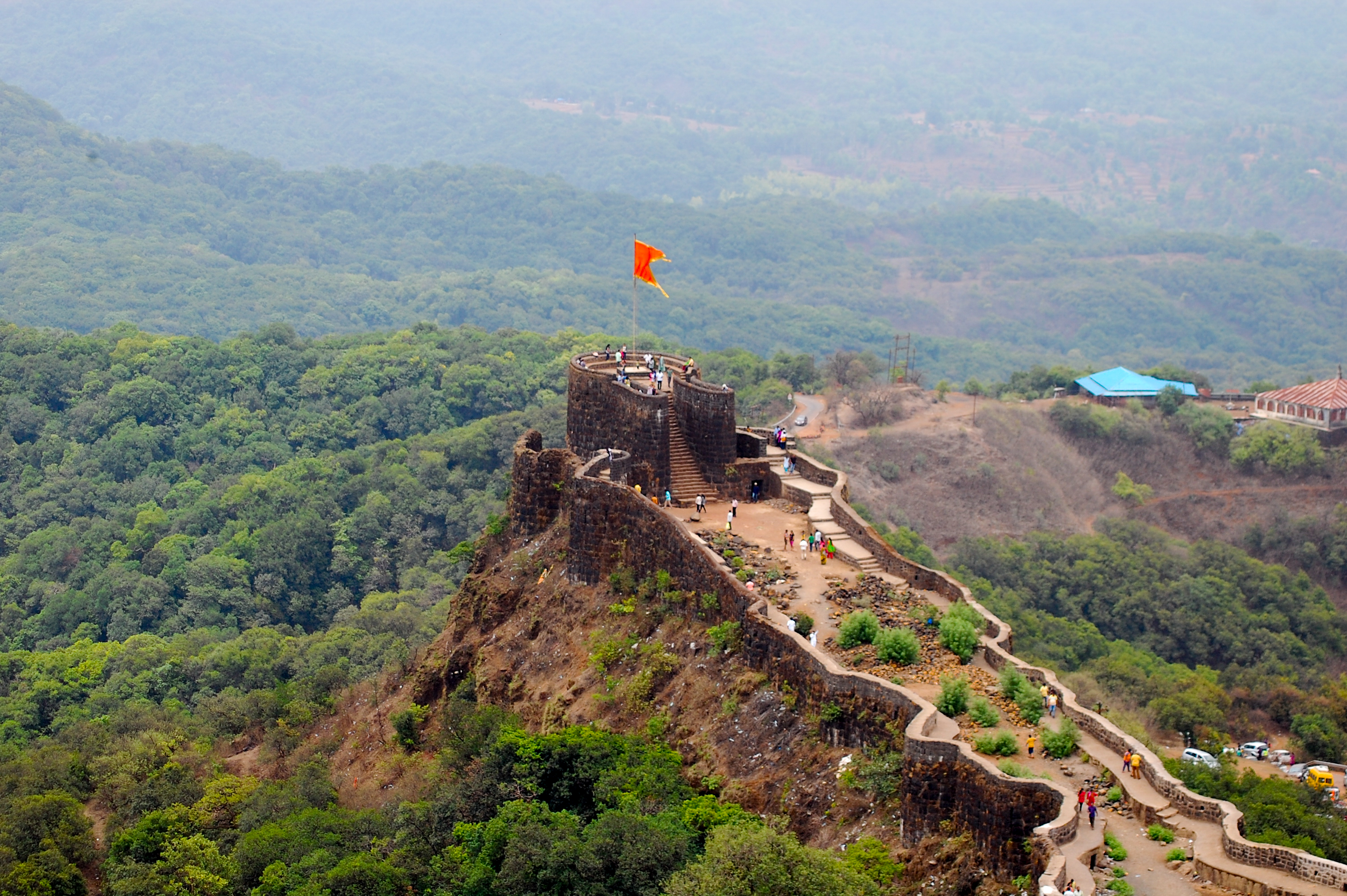 One of the bastion('buruj') of Pratapgad.